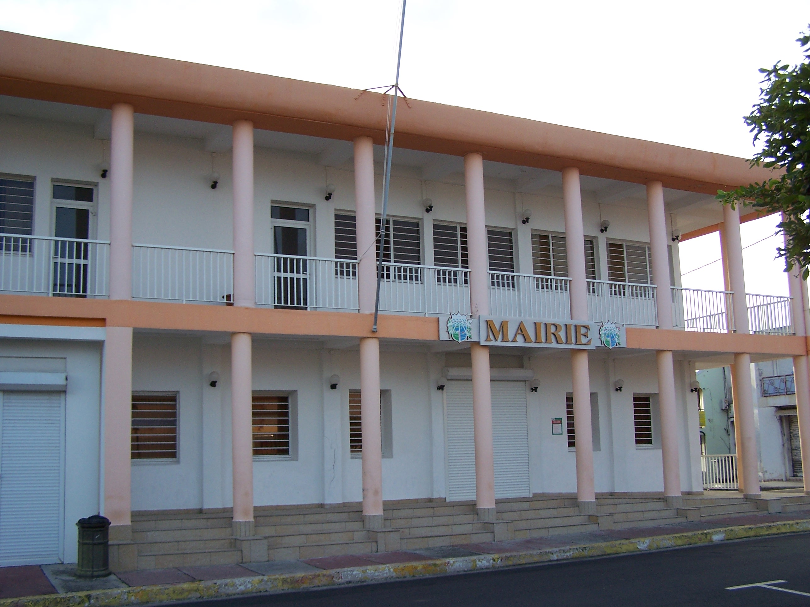 Mairie de Saint-François en Guadeloupe